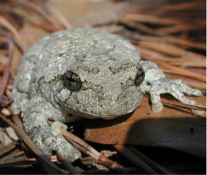 Gray treefrog, probably Hyla versicolor.